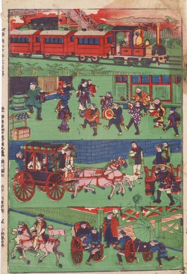 a kaika-e for kids by Utagawa Kunimatsu, 1877